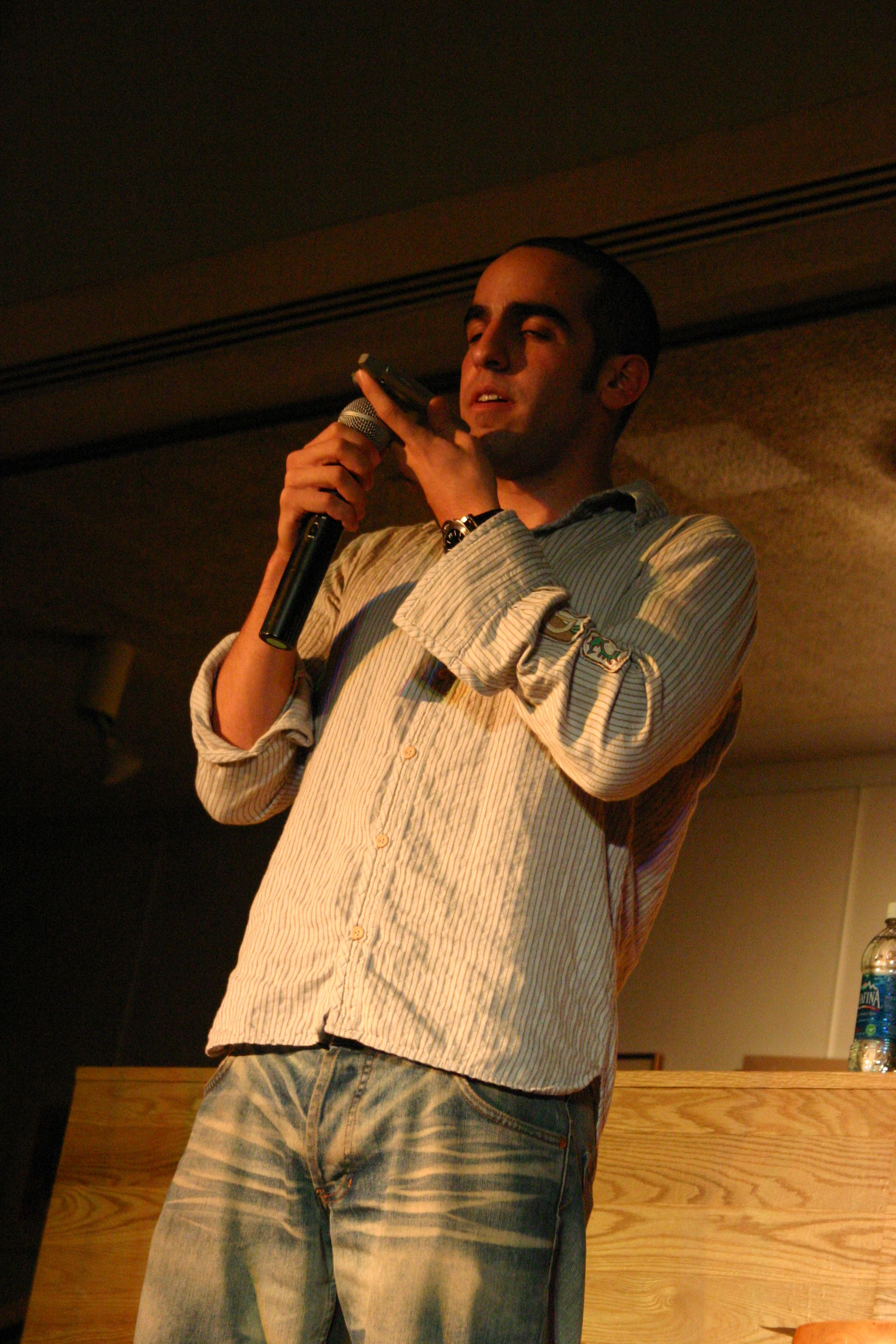 Comedian Dan Ahdoot on stage.